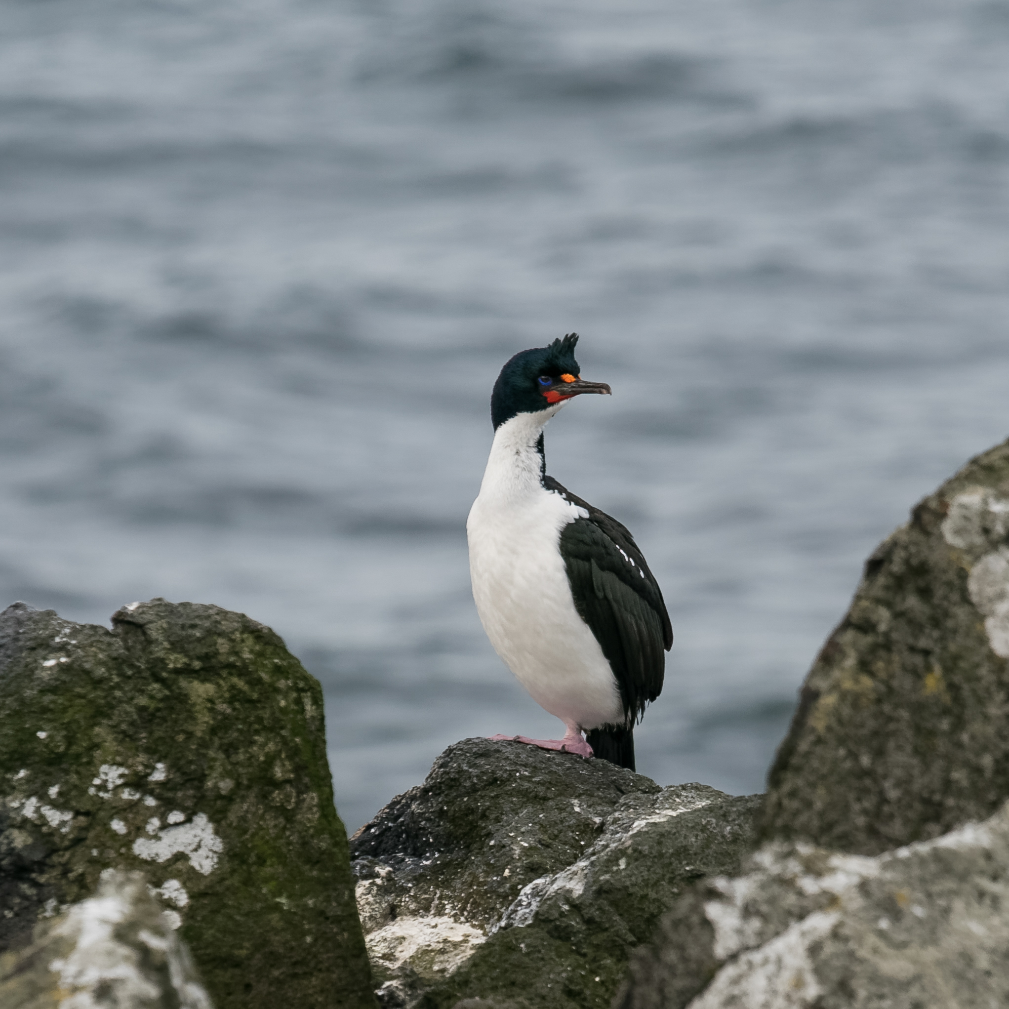 Chatham Island shag (Leucocarbo onslowi) perched on a rock at Manukau Point on Chatham Island